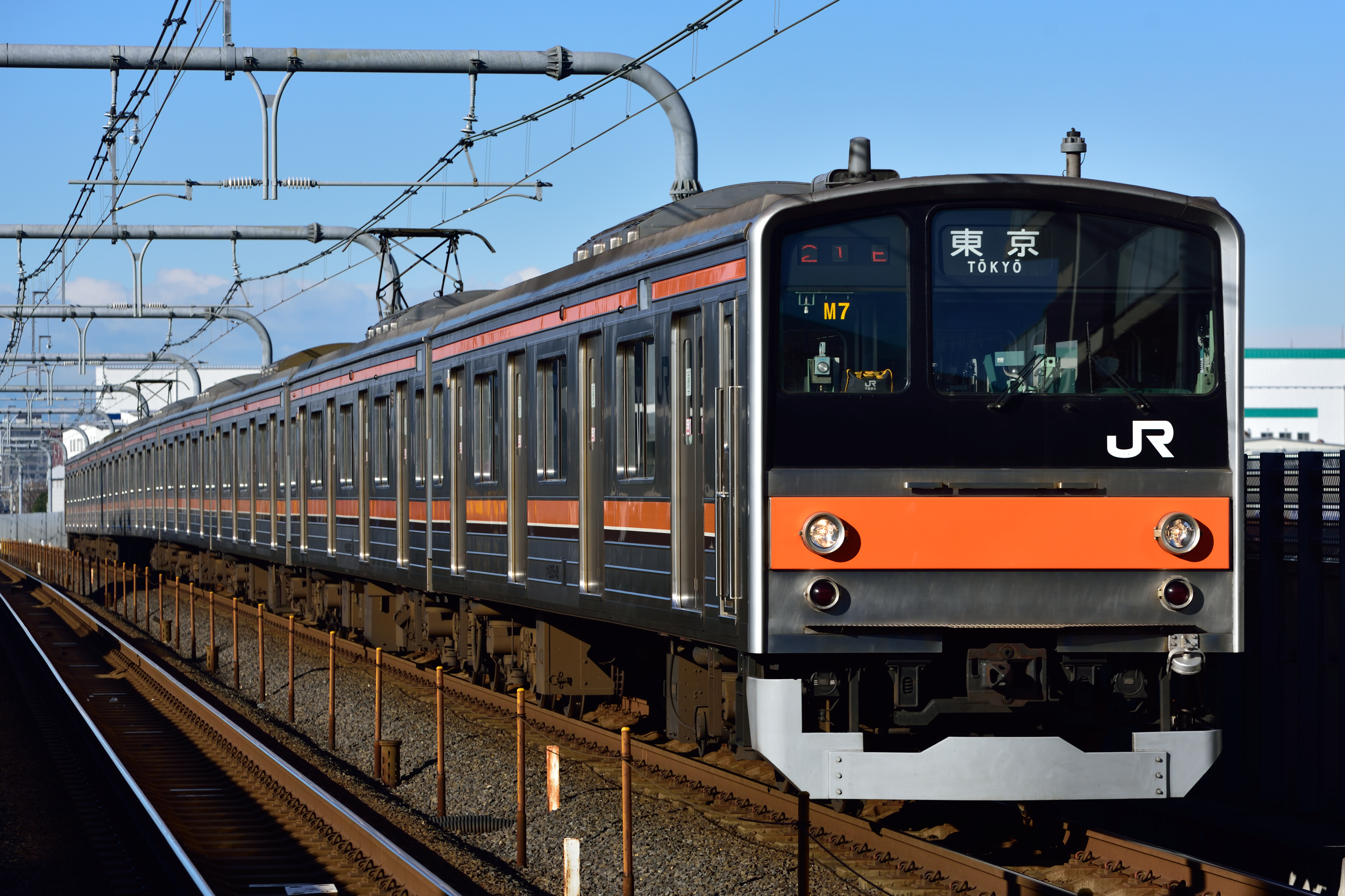 JR East 205 series EMU set M7 approaching Koshigaya Laketown Station on a Musashino Line service to Tokyo